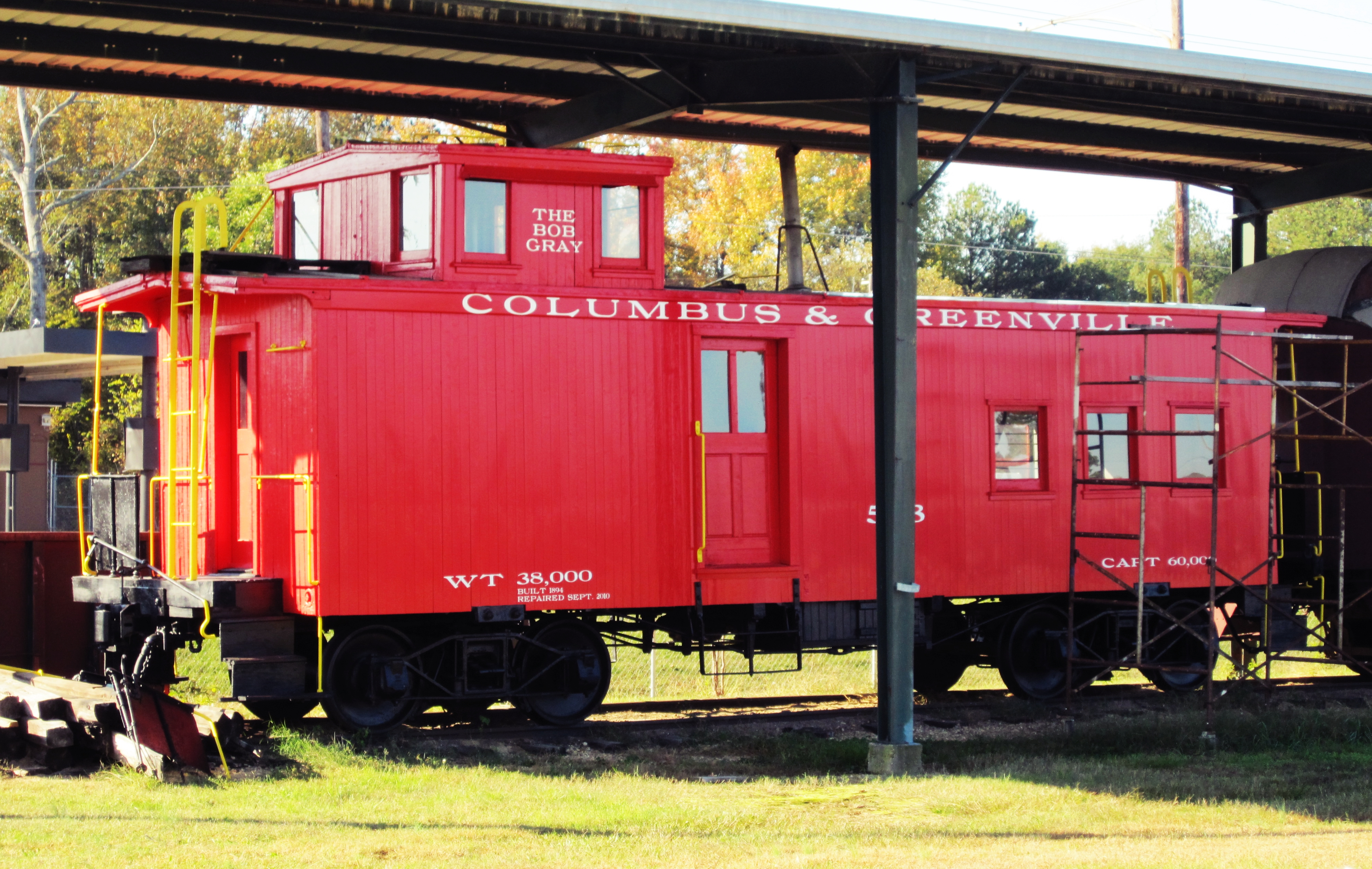 Old wooden Columbus & Greenville caboose on display in Columbus, Mississippi.